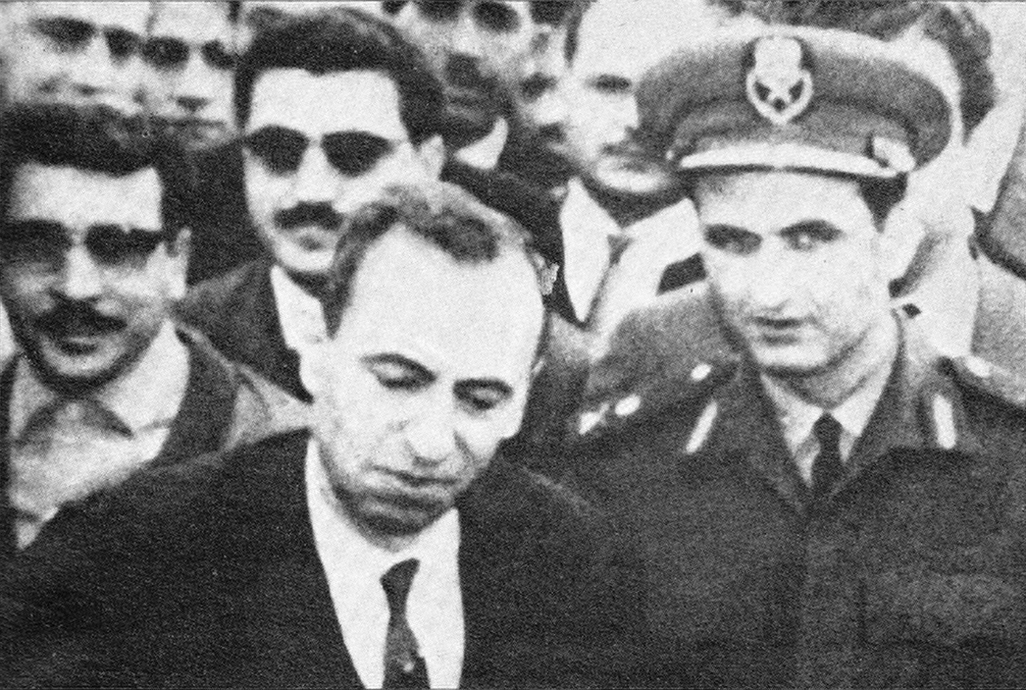 Baath Party strongmen Michel Aflaq (left) and Salah Jadid (right) in 1963 / This photo was taken shortly after the Baath came to power on March 8, 1963